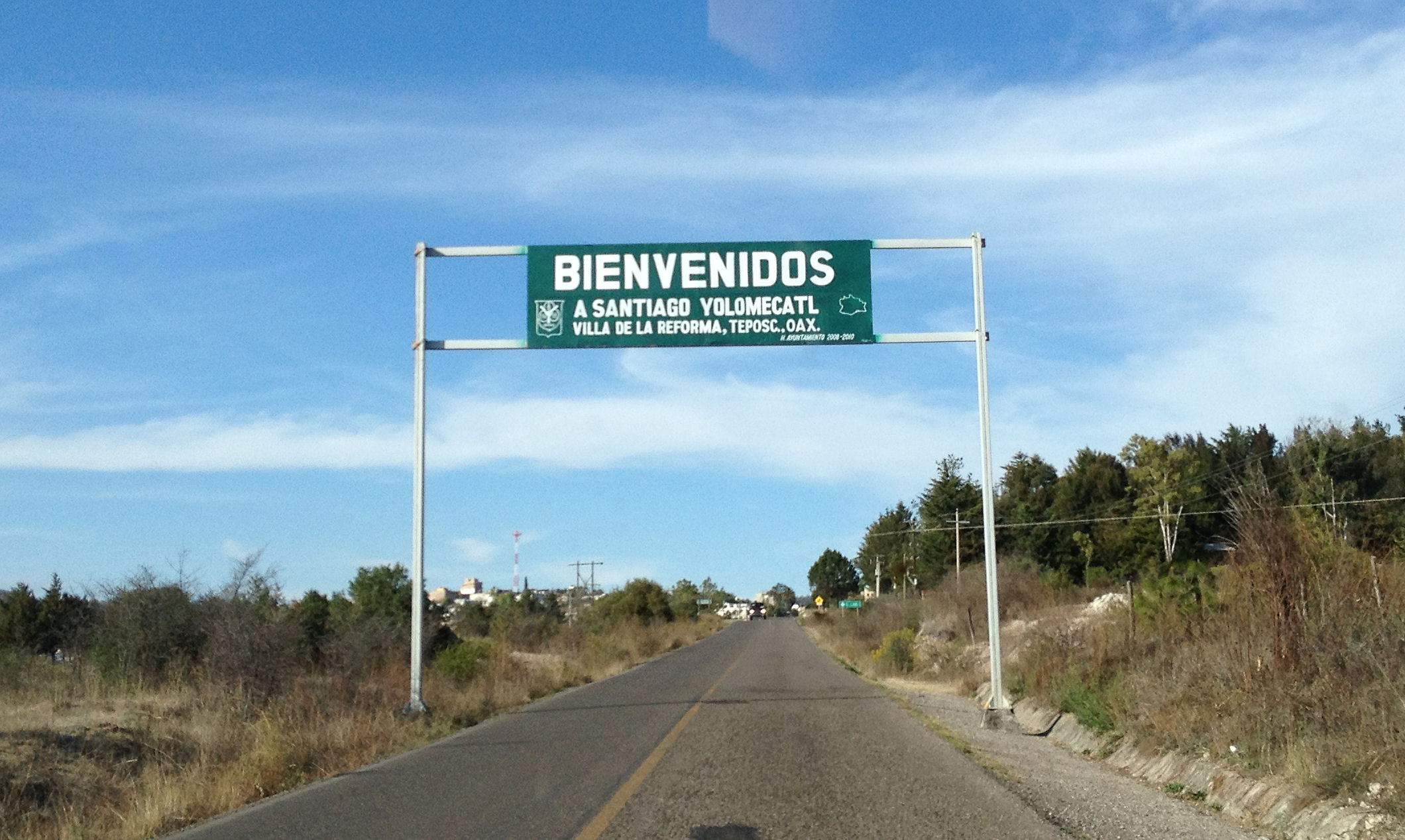 Entrance to the town of Santiago Yolomecatl, Oaxaca